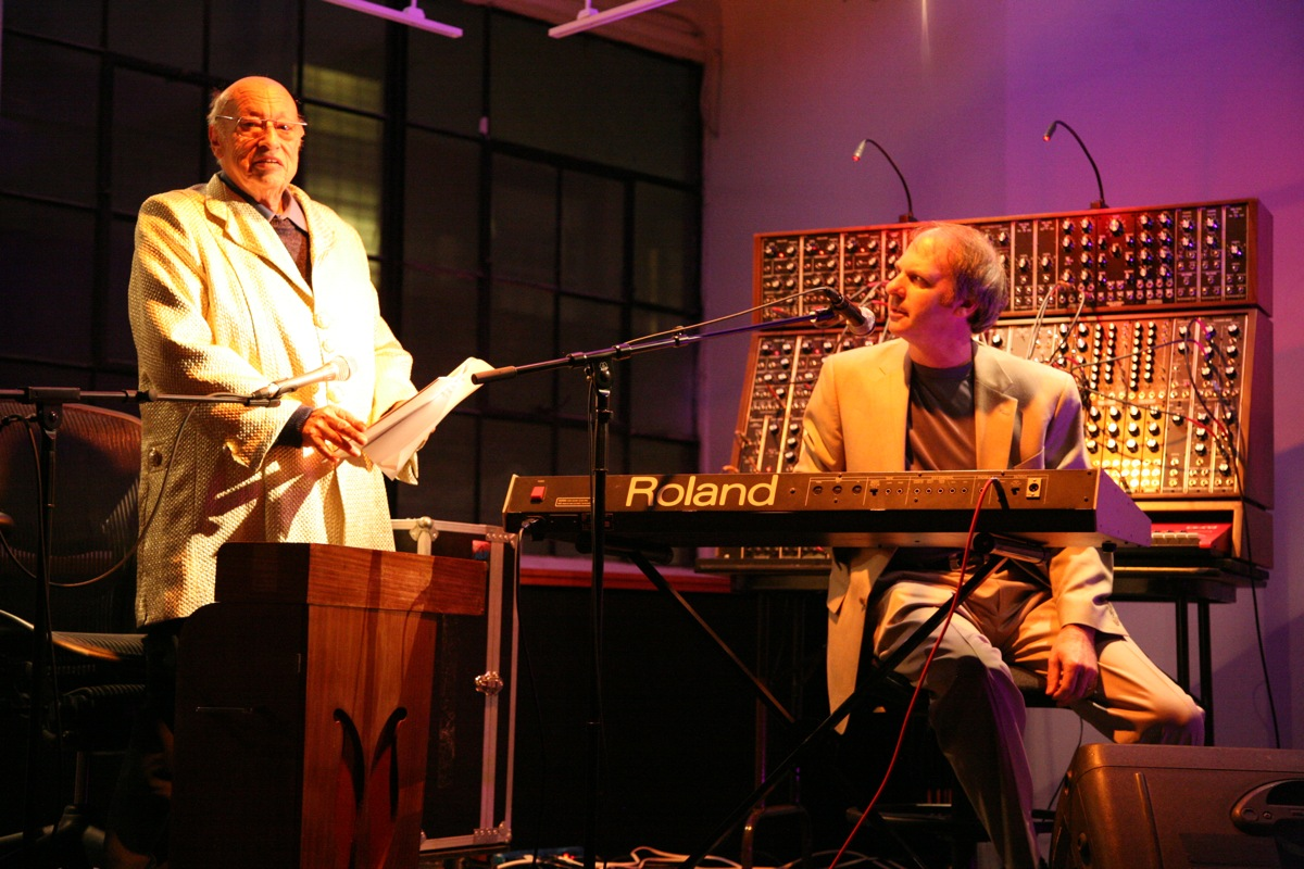 Jean-Jacques Perrey & Dana Countryman photos by Randy Yau